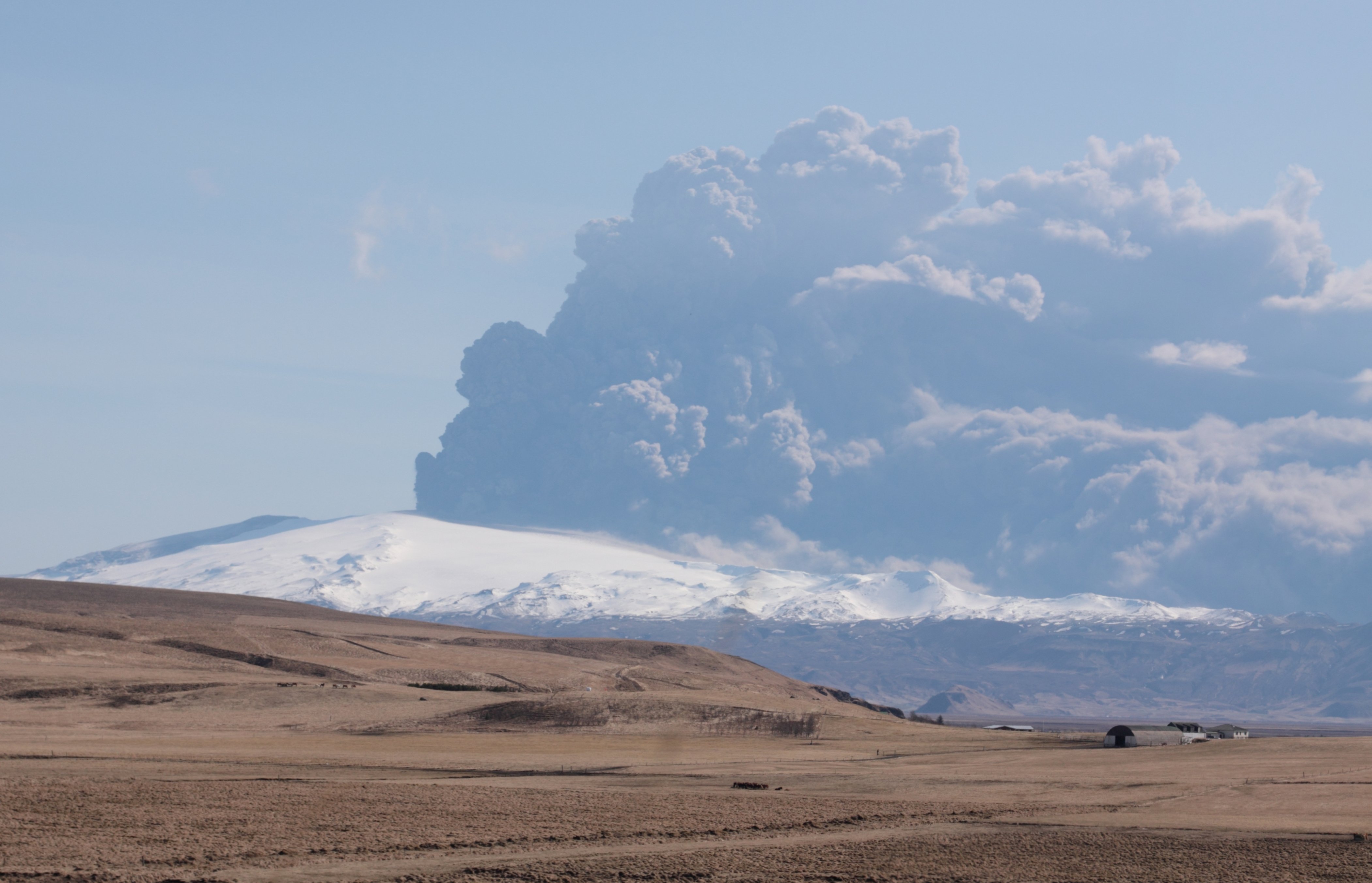 Eyjafjallajökul